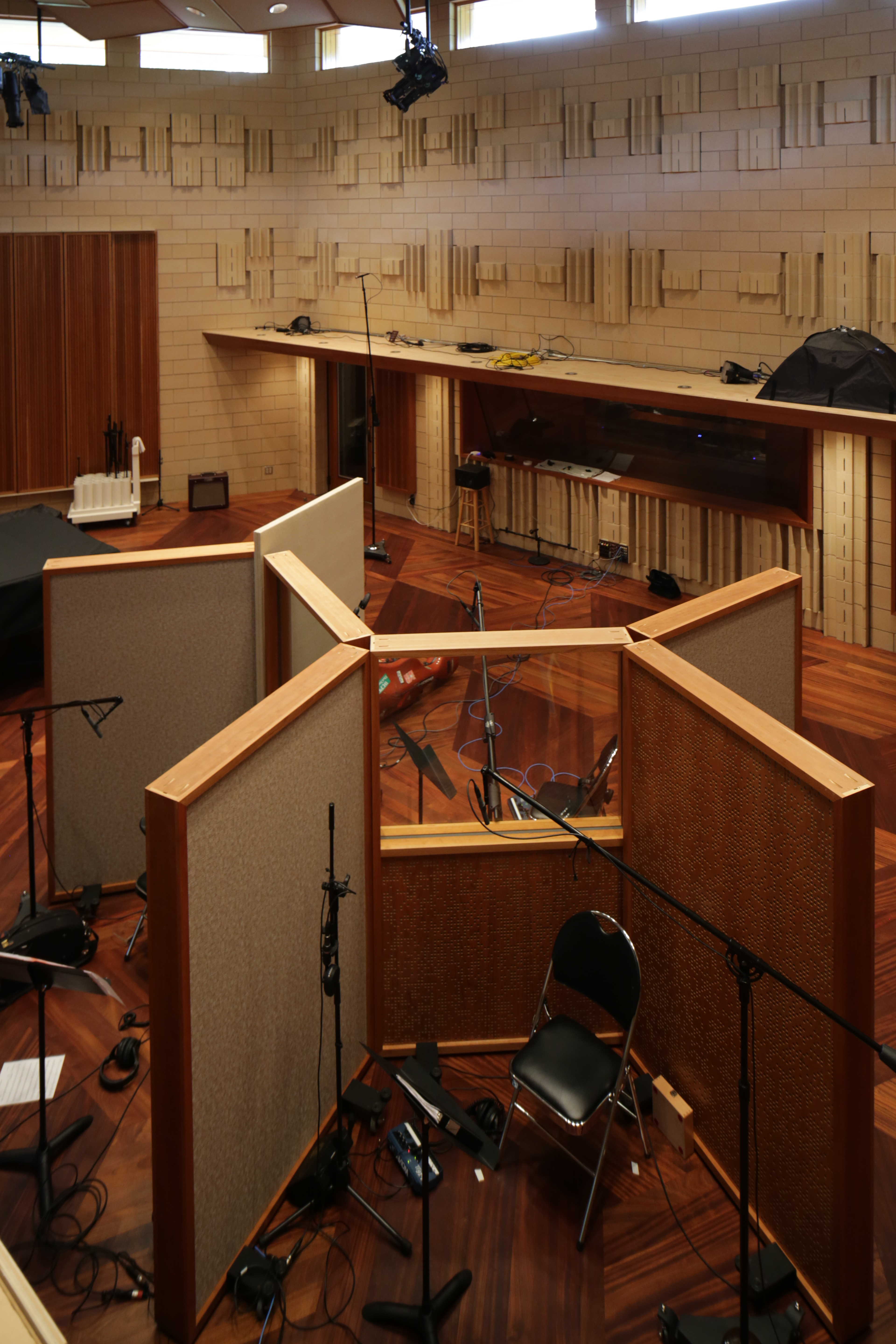 Example of several gobo panels creating separated acoustic environments within a larger acoustic environment.